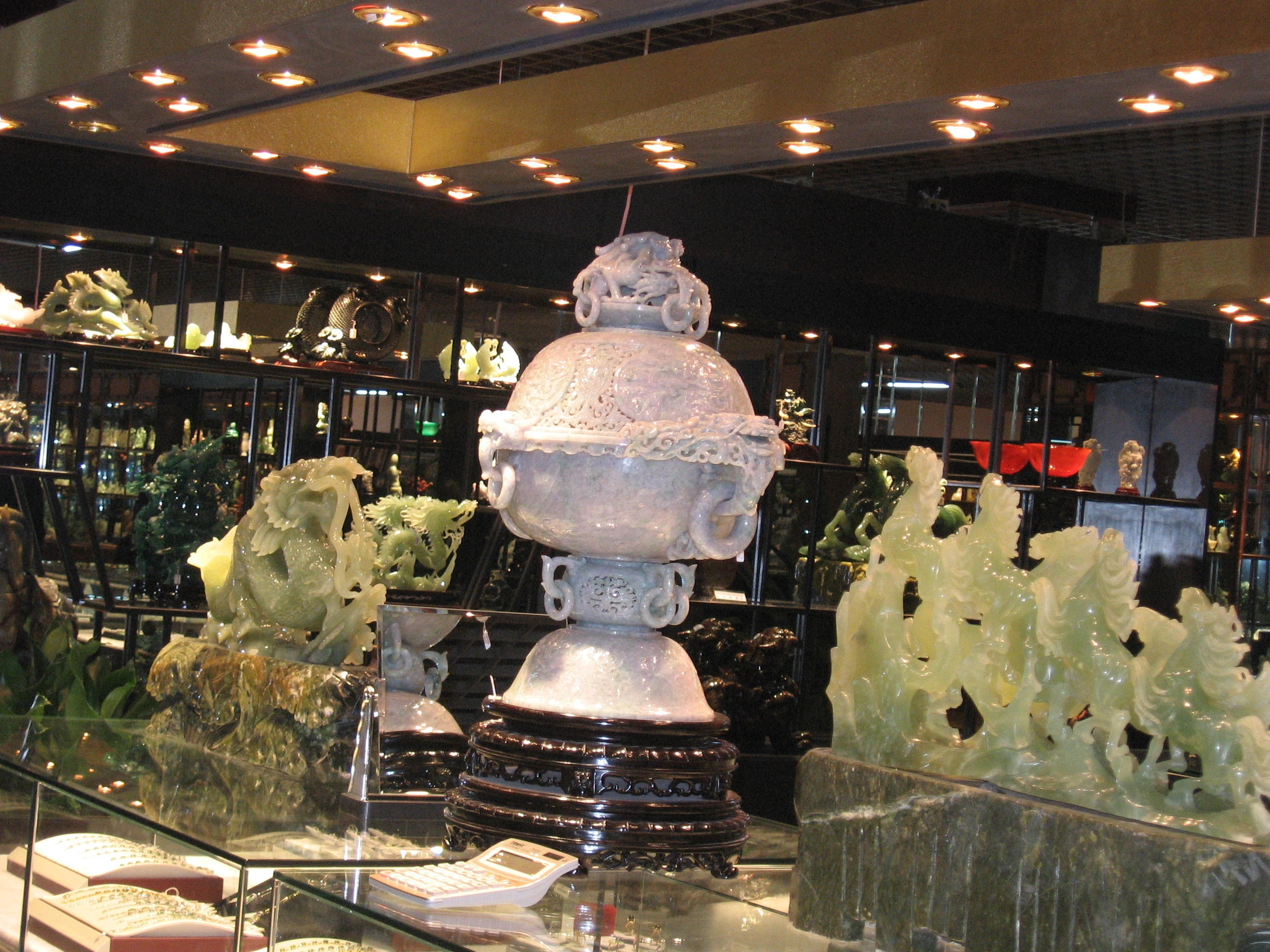 Jade store in China